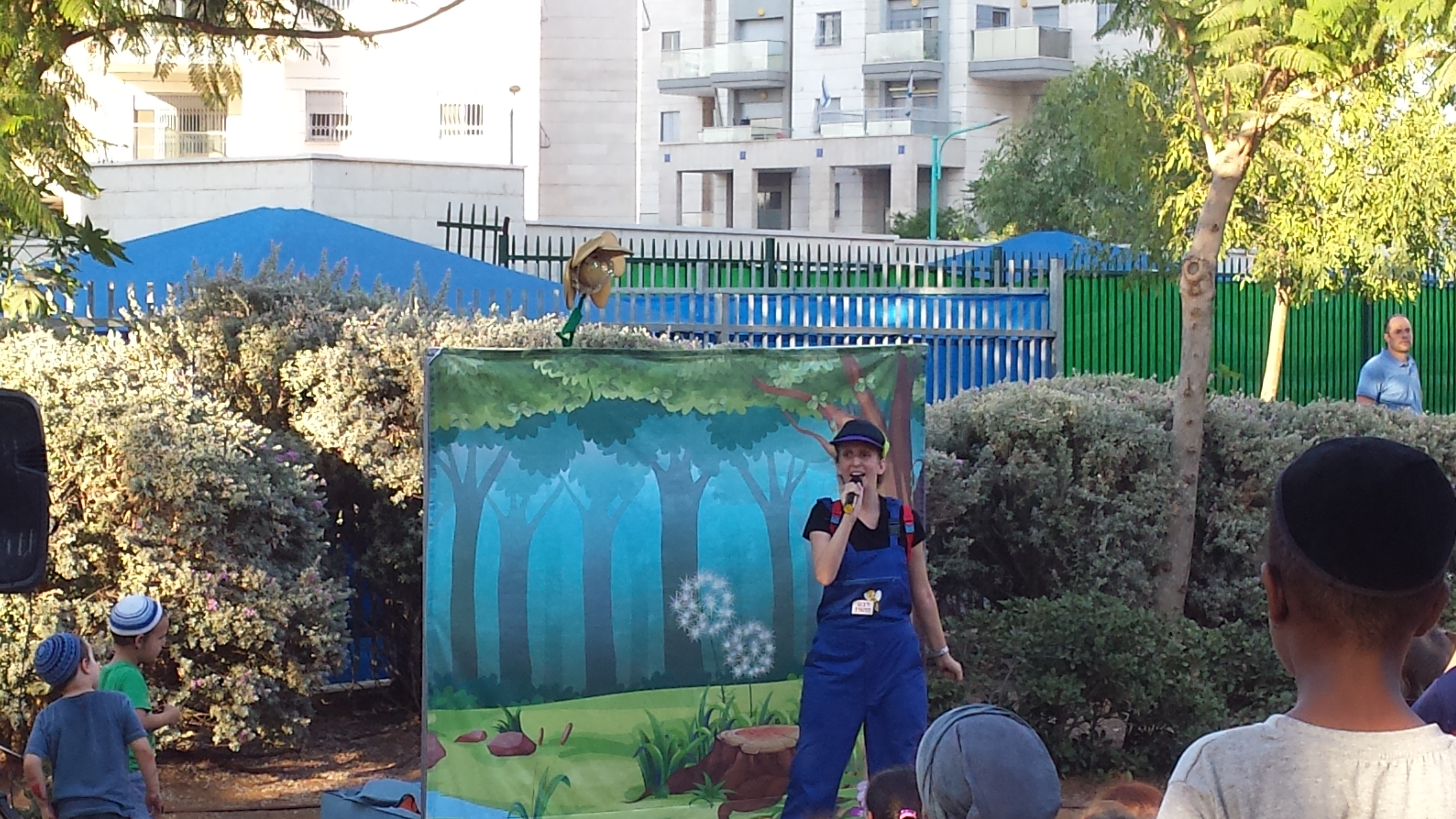 Detail from the play "Gold heart flower" (Perach lev hazahav) by Keren Or Theater in Uri's Garden, Lod, August 12th 2018